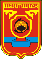 Coat of arms of Shahtinsk